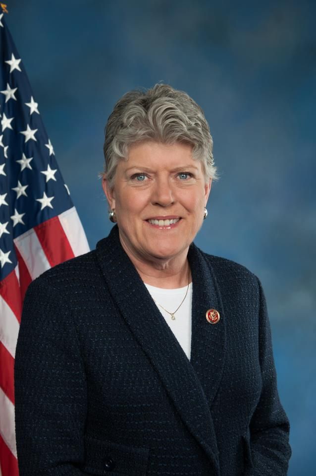 U.S. Representative from California Julia Brownley.